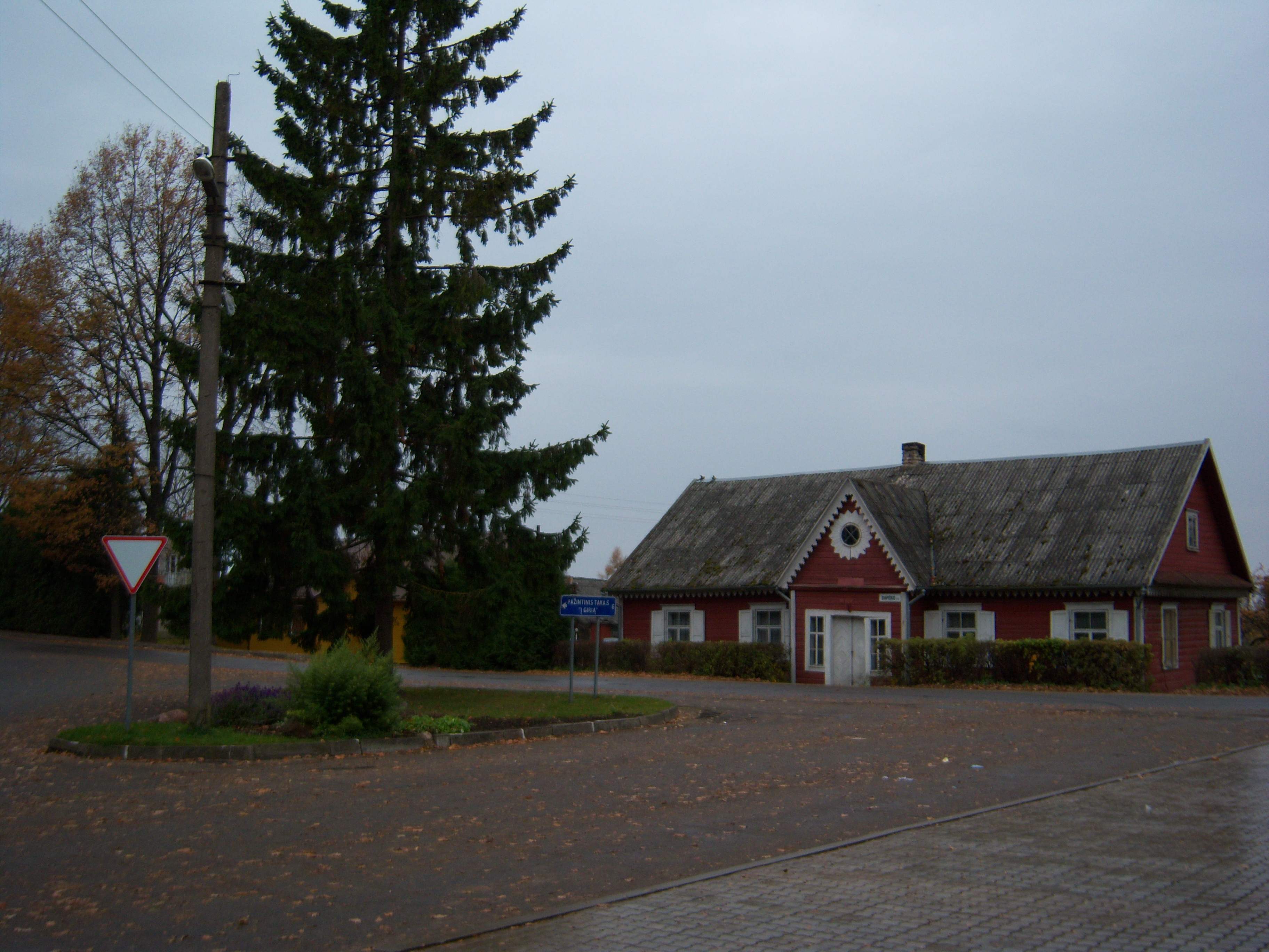 Šimonys, Kupiškis District, Lithuania